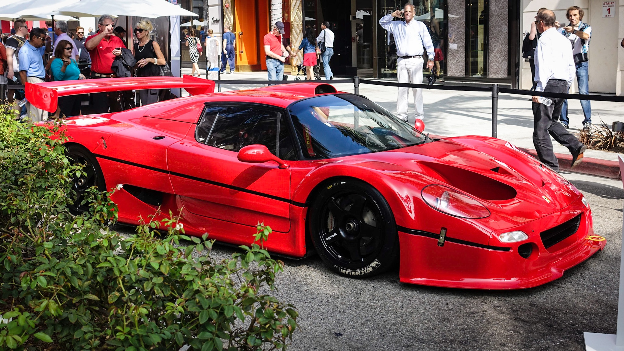 Ferrari introduced the F50 in 1995, then in 1996 decided to build a racing version for international GT racing. The F50 GT had a fixed roof, new front spoiler, and larger rear spoiler among other changes. This car, chassis 001, was the prototype used for testing, where it proved to be even faster than the 333 SP (an LeMans Prototype car). With GT rules changing, though, and Ferrari needing resources for Formula One, the F50 GT program was cancelled. This was the only car completed before the cancellation of the program.